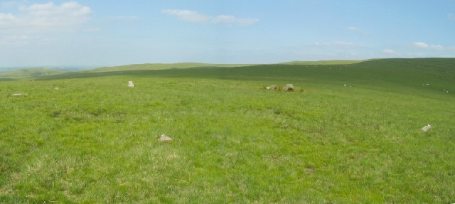 Stone Circle on Waun Lwyd. No really, it is a stone circle. Look harder. It's marked on the OS Maps too. Although why they bothered is a mystery. Most of the stones seem no bigger than a football and are almost completely submerged. Only interesting as a test of your navigational skills.